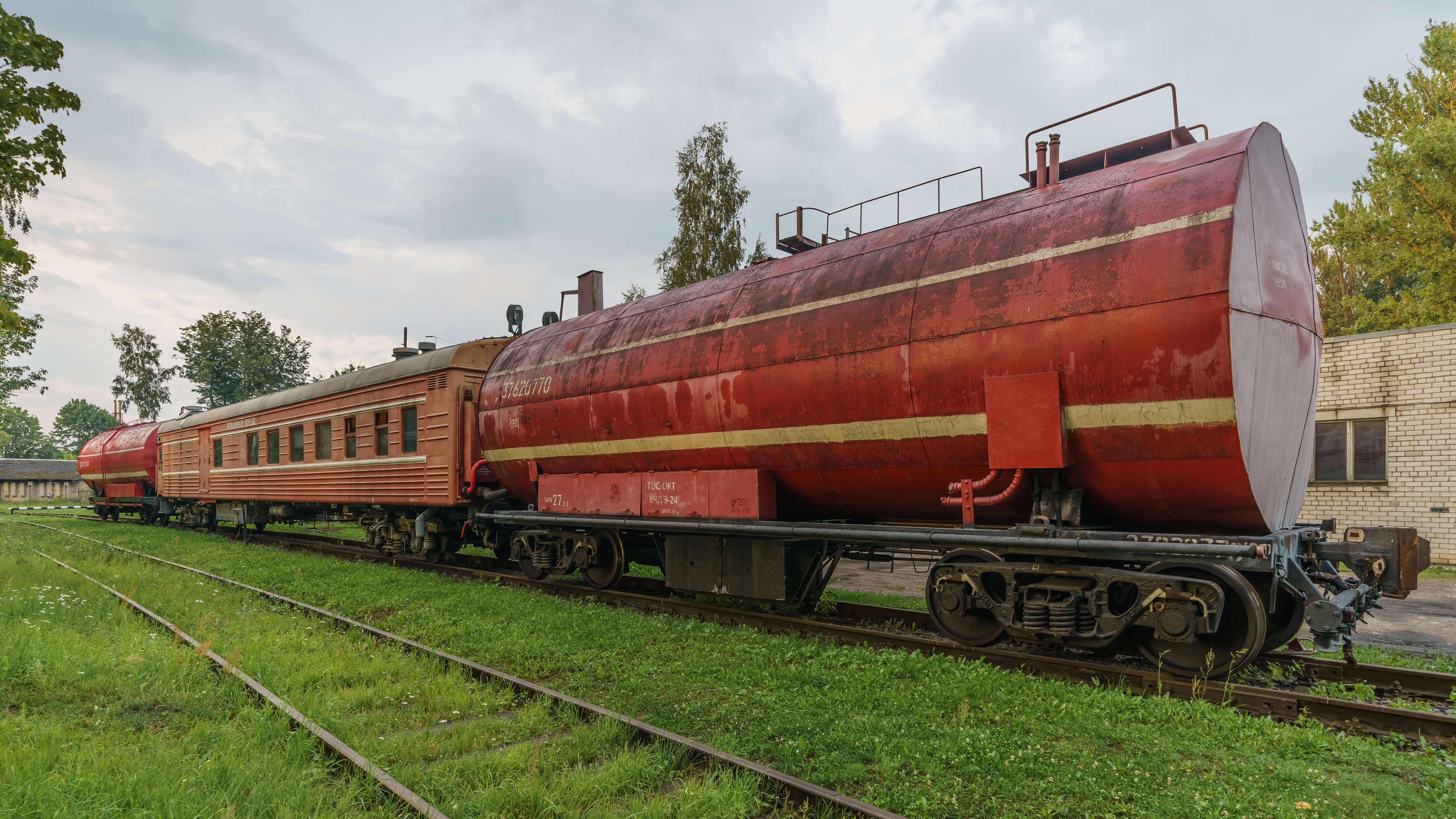 Firefighting train parking near the railway station in Pskov, Russia